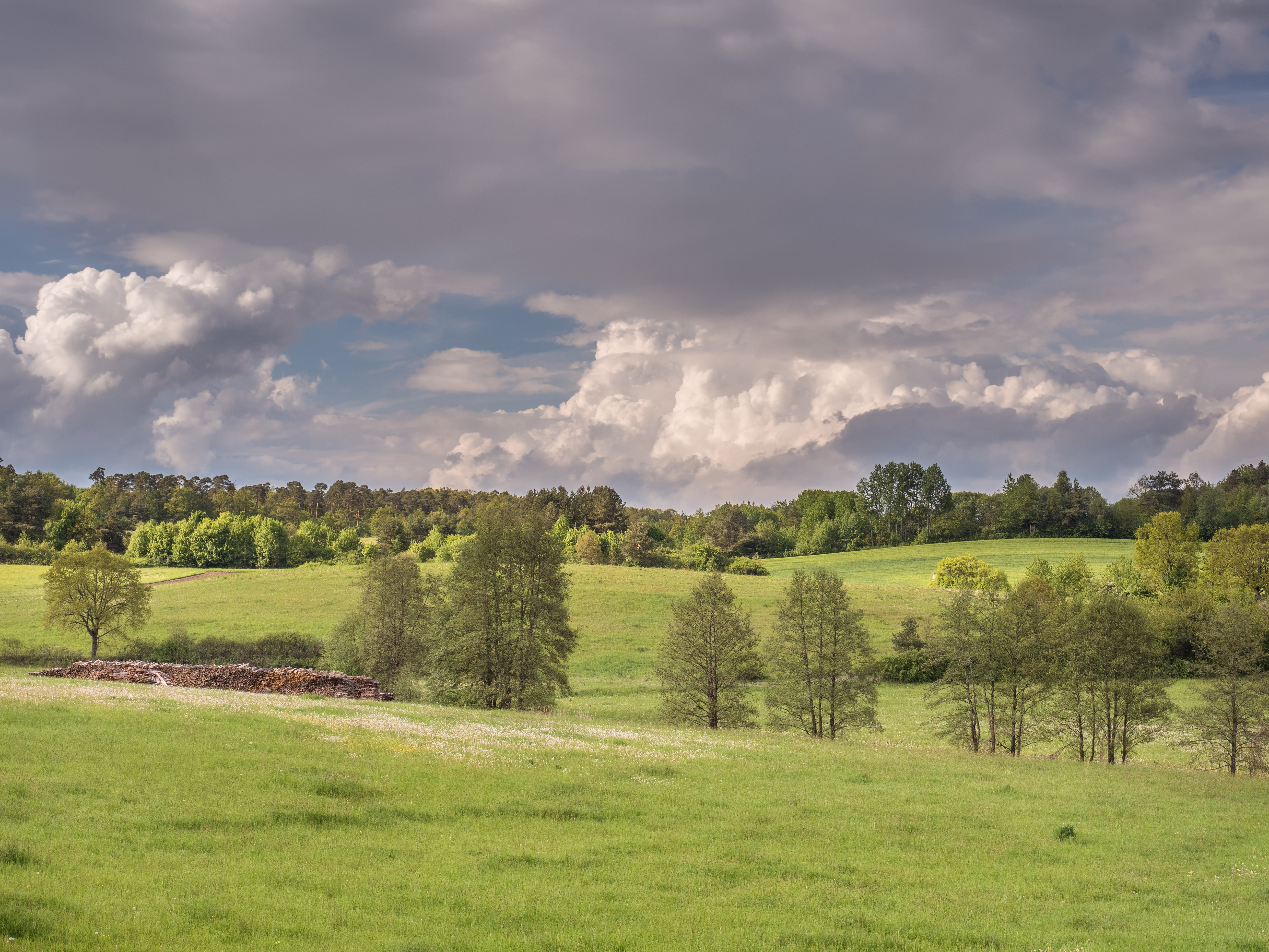 Former military training place Ebern and surroundings